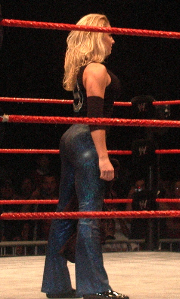 Trish Stratus competing at a WWE Raw live event. Allstate Arena, Rosemont, IL, September 1en:2002. Taken by me.